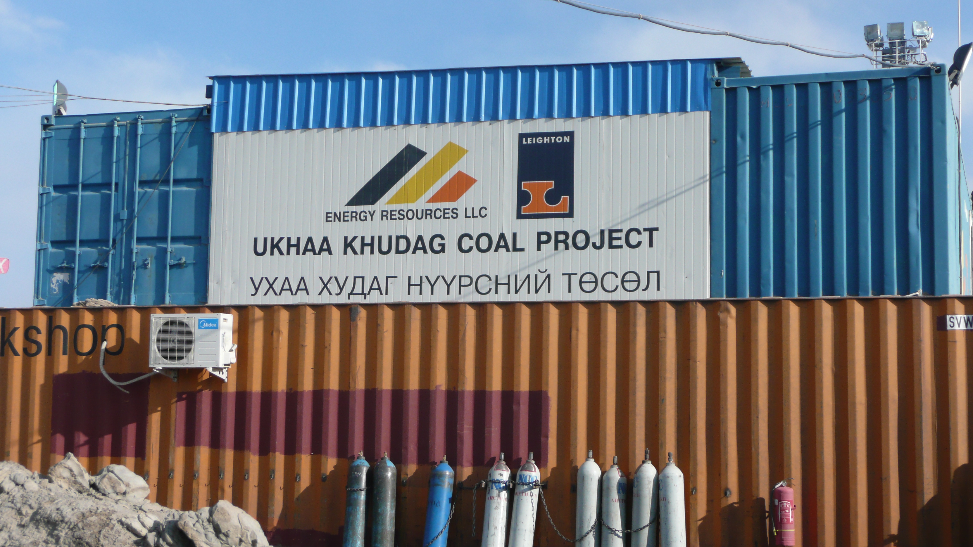 Energy Resources LLC, UHG Ukhaa Khudag Project in Tavan Tolgoi